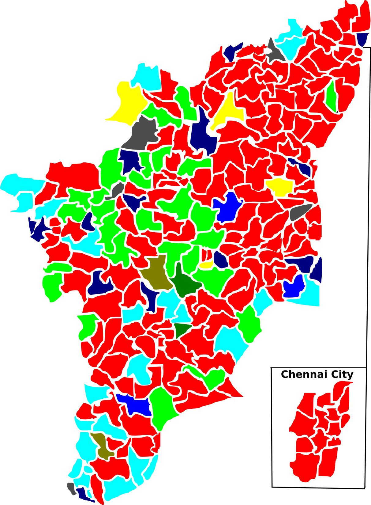 made election map using borders from ECI website using Inkscape. Results based on ECI website. [1]